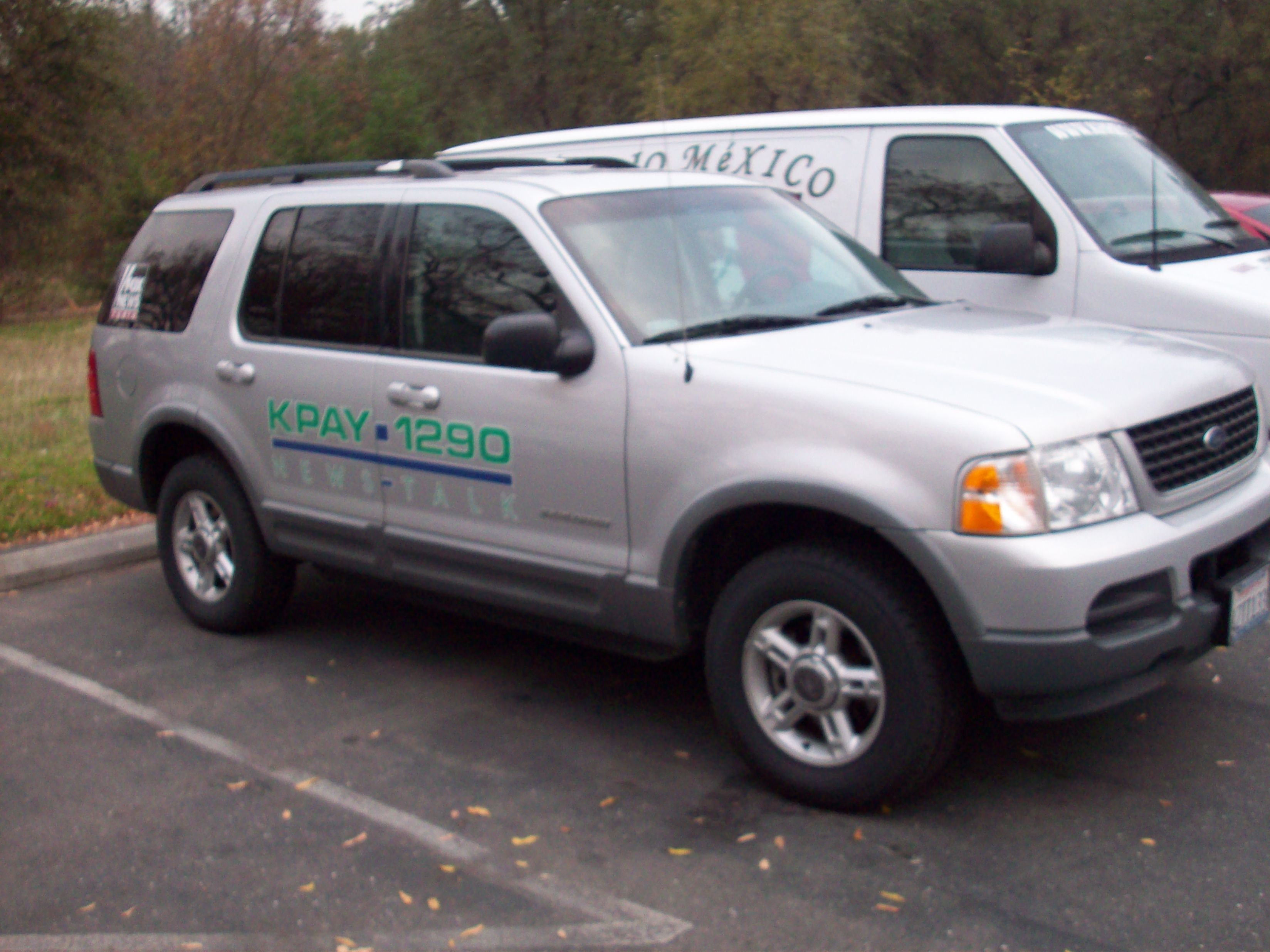 I took this picture. I relinquish all rights. -Greg Bard